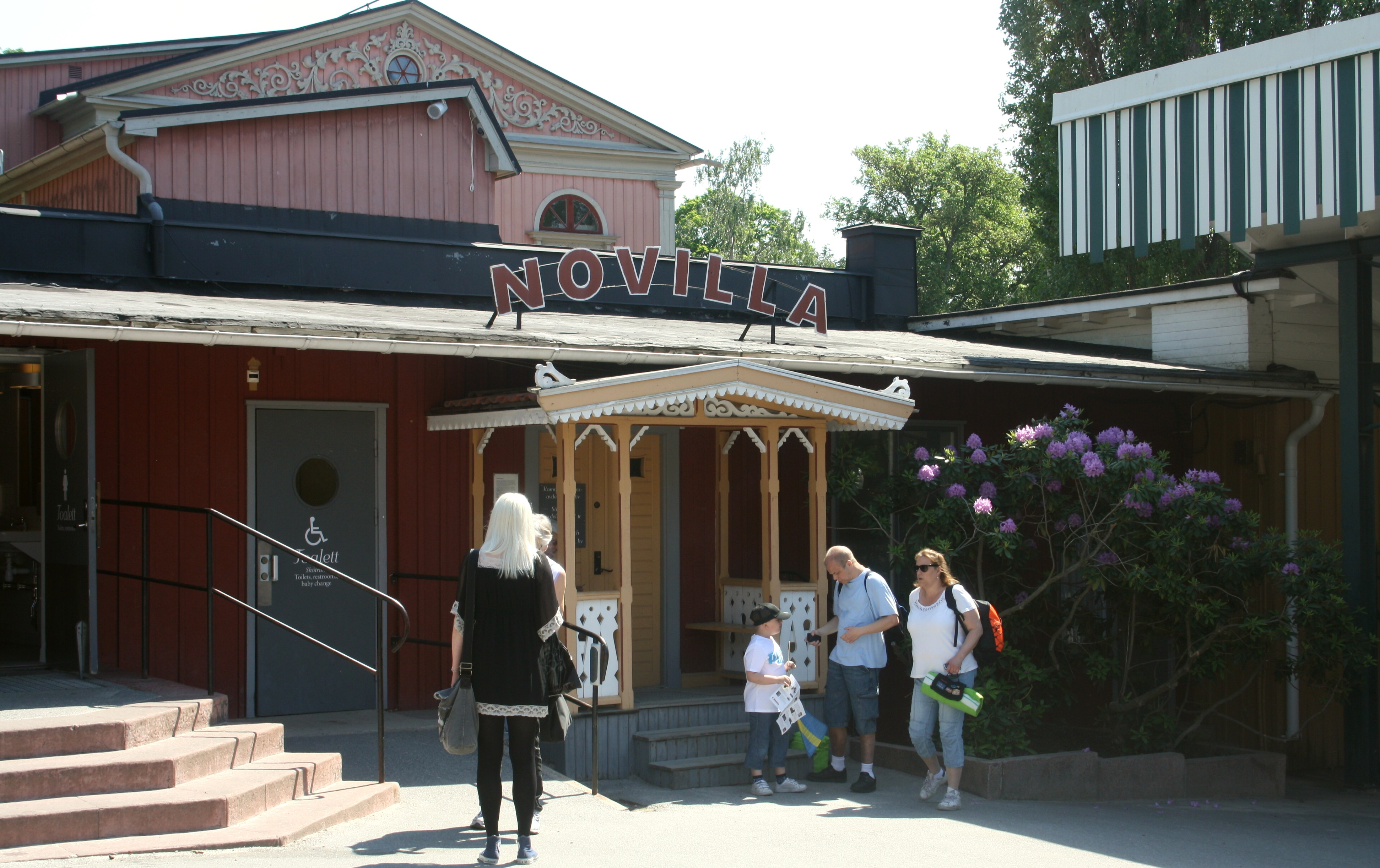 Skansen in Stockholm, Sweden at National Day of Sweden.